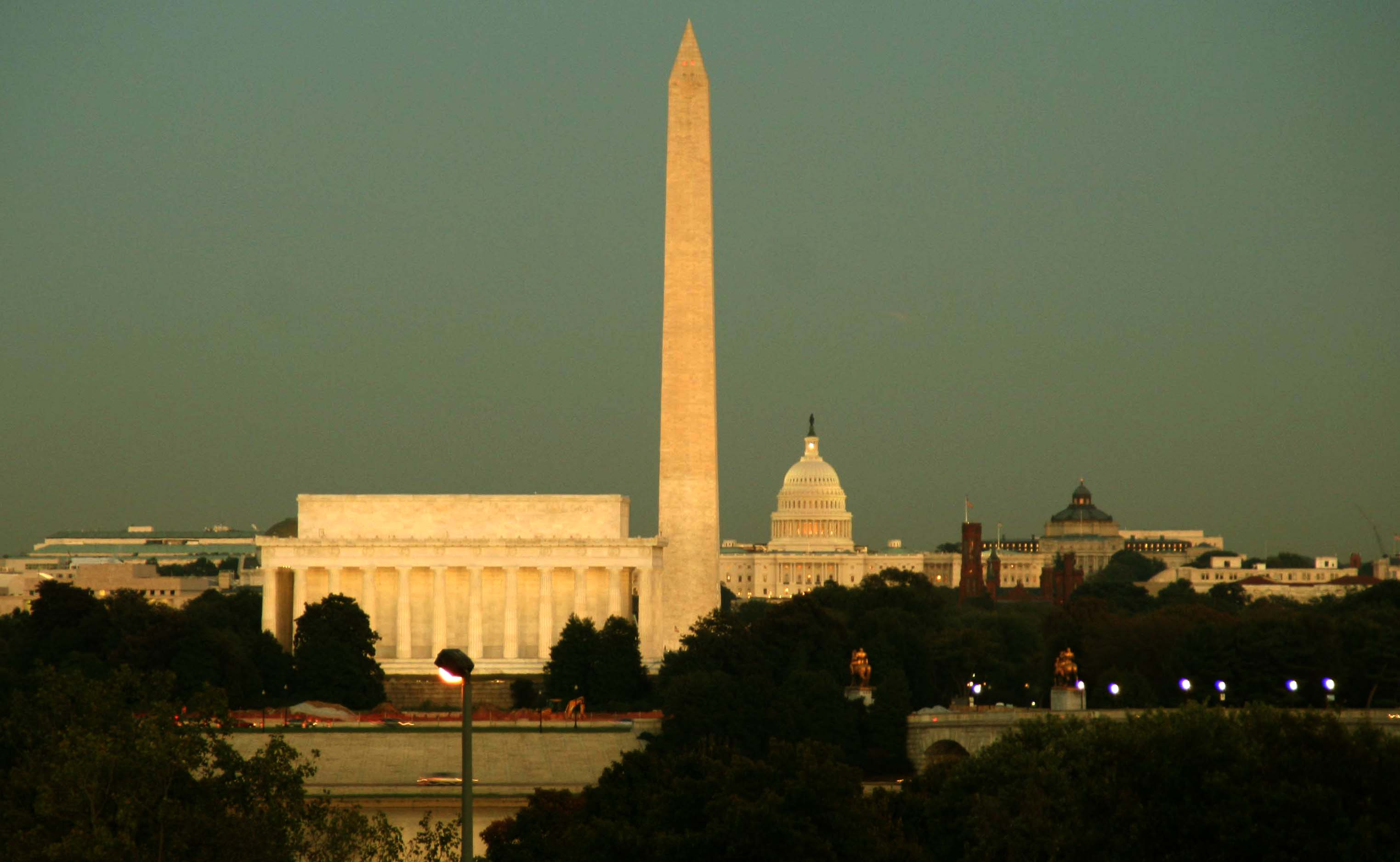 The DC skyline as seen from Arlington Nat'l cemetary - Jeff Costlow 2005